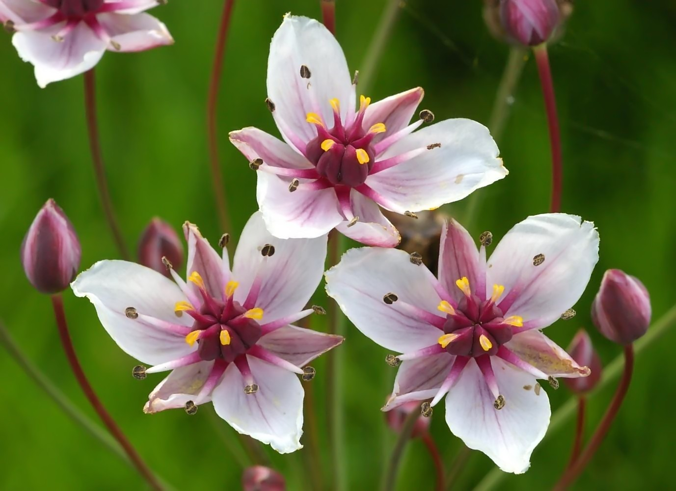 The plant Flowering Rush, Butomus umbellatus (Butomaceae).